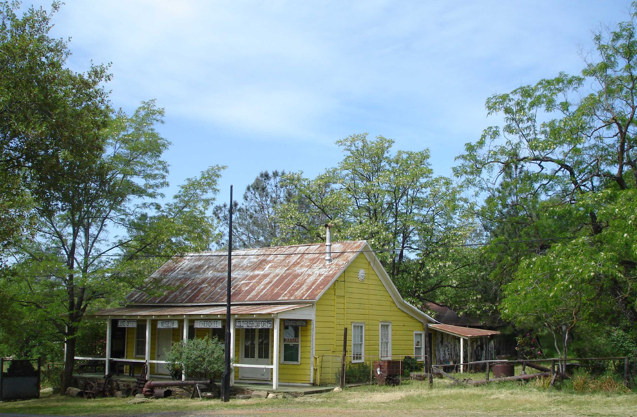 Cherokee, California.